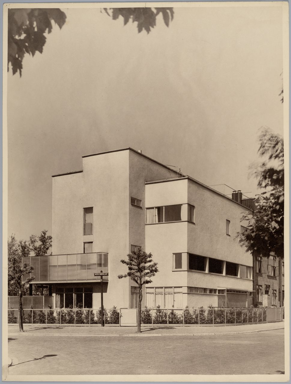 Woonhuis Van der Leeuw, Kralingse Plaslaan Rotterdam, 1930. Architect: J.A. Brinkman en L.C. van der Vlugt. Fotograaf: onbekend. Collectie NAi / TENT_o740 URL van deze afbeelding: Meer foto's uit deze collectie kunt u bekijken in de Collectiedatabase van het NAi. Niet van alle gebouwen en interieurs zijn alle gegevens bekend. Heeft u meer informatie of weet u het adres van een gebouw? Laat dan een reactie achter (als u ingelogd bent bij Flickr) of stuur een mailtje naar: Al deze foto's zijn gemaakt in de eerste helft van de twintigste eeuw. Wij zijn benieuwd hoe deze gebouwen er vandaag de dag uitzien. Heeft u recente foto's van deze gebouwen of locaties, voeg ze dan toe als commentaar. U kunt een eigen Flickr-foto toevoegen door de URL ervan tussen vierkante haken in het commentaarveld te plakken. Als uw foto's een Creative Commons licentie hebben, nemen we ze bovendien graag op in de NAi Collectiedatabase. Van der Leeuw House, Kralingse Plaslaan Rotterdam, 1930. Architect: J.A. Brinkman and L.C. van der Vlugt. Photographer: unknown. NAI Collection / TENT_o740 Persistent URL: For more photographs from this collection, please visit the NAI Collection Database You can help us gain more knowledge on the content of our collection by adding a comment with information. If you do not wish to log in, you can write an e-mail to: All these pictures are taken in the first half of the twentieth century. We are curious to learn how these buildings look like today. If you have recently taken photographs of these buildings or locations, please add them to your comment. If you'd like to include a Flickr photo, simply copy and paste its URL between square brackets in the commentary-field. Photos with a Creative Commons licence may be used to illustrate the NAi Collection Database.